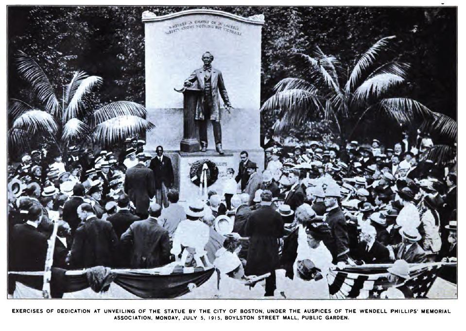 Photograph from the dedication ceremony dedicating the Wendell Phillips Memorial at the Boston Public Garden on July 5, 1915